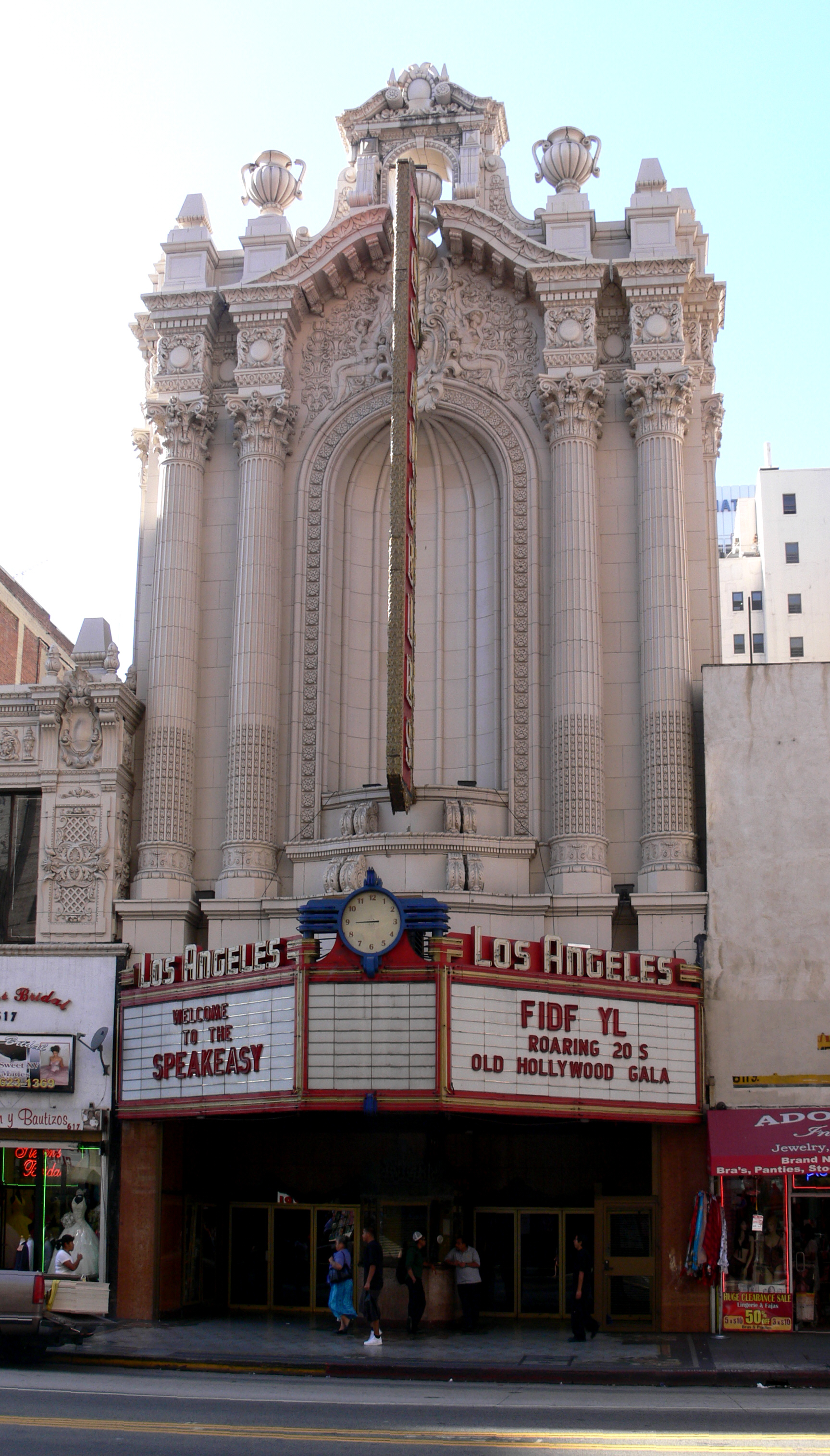 Los Angeles Theatre, 615 S. Broadway, downtown Los Angeles